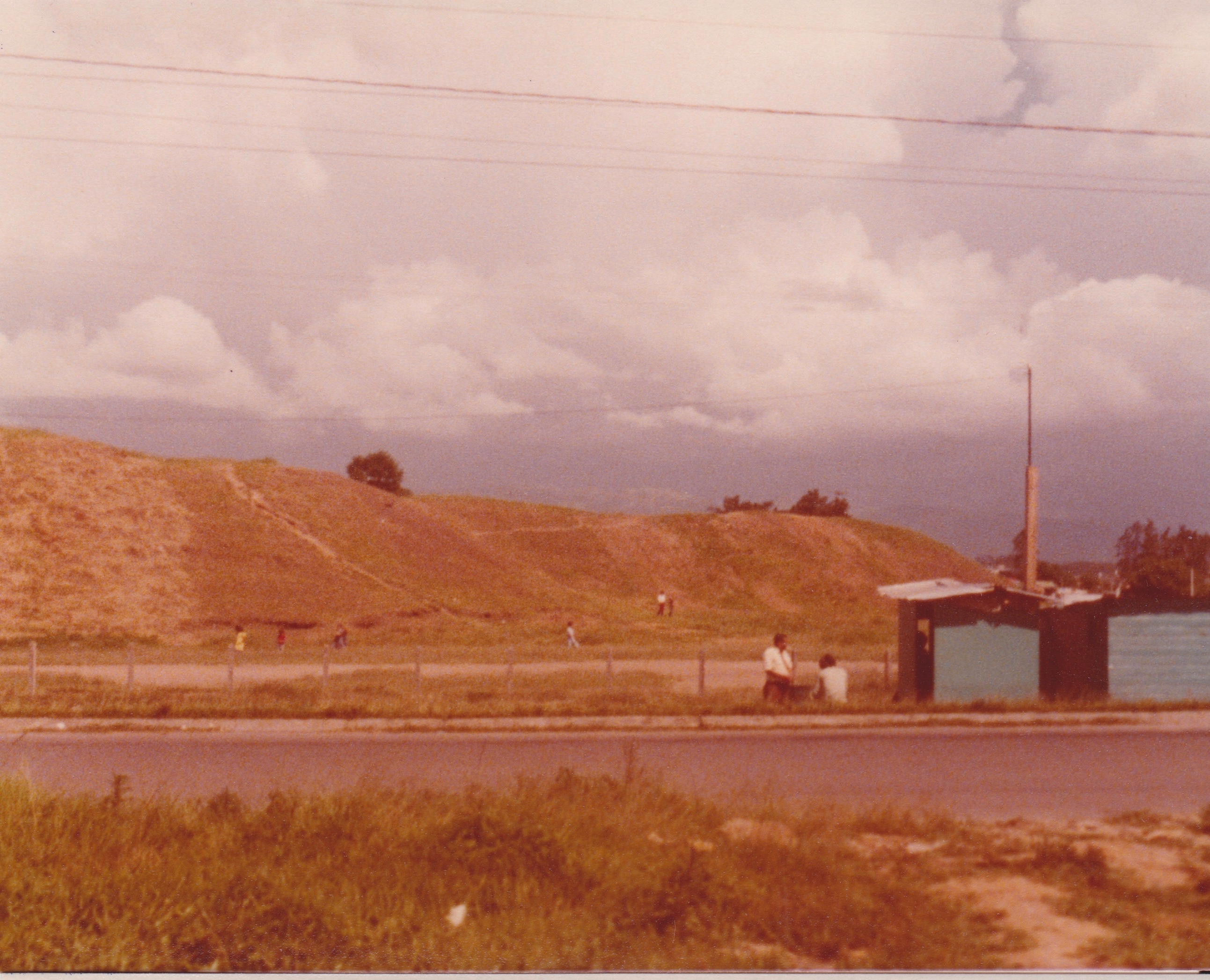 Kaminaljuyu ruins within suburbs of Guatemala City, 17 June 1979